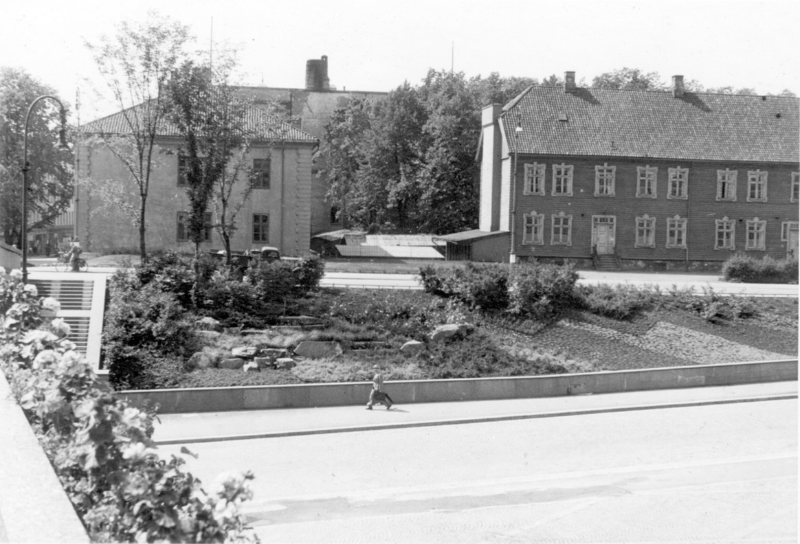 Empirekvartalet, seen from Arne Garborgs plass (square). Militærhospitalet to the right, the main building to the left. Photo and year: Unknown.